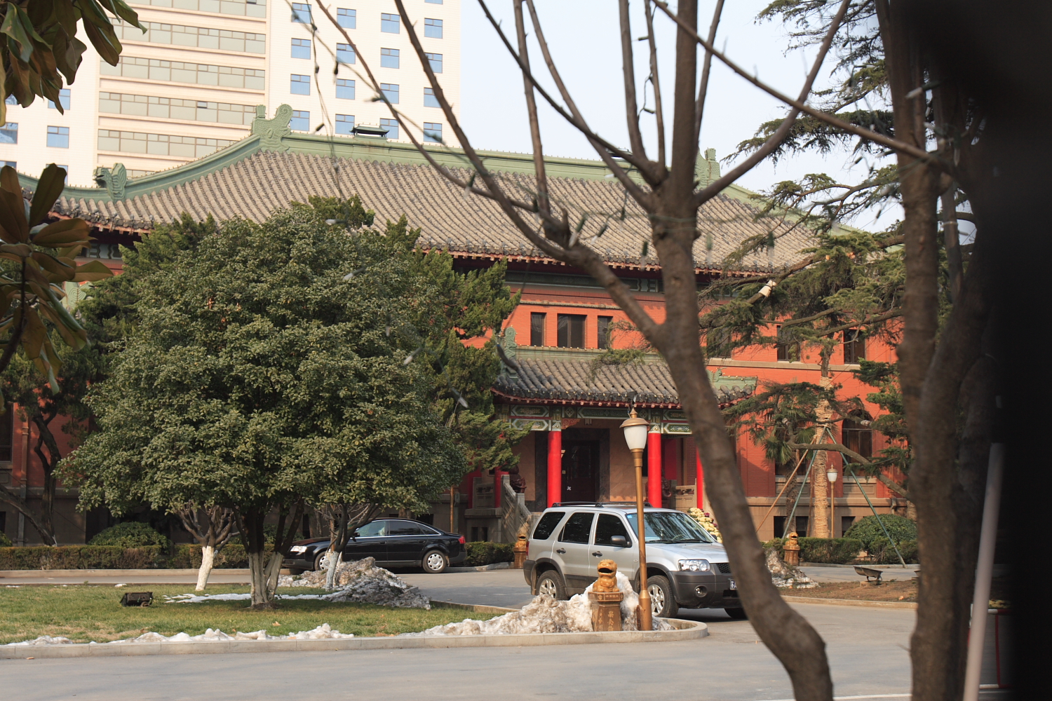 Lizhishe historical sites,Nanjing